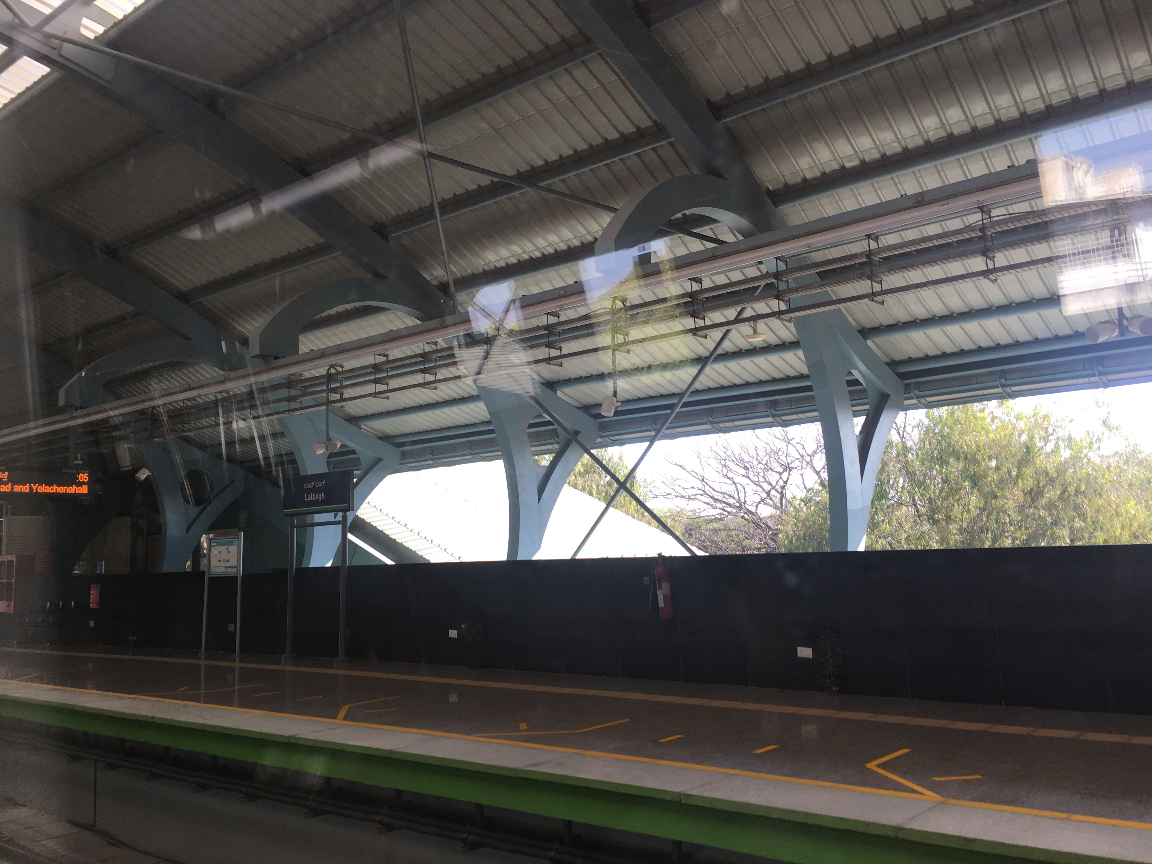 Lalbagh Metro Station